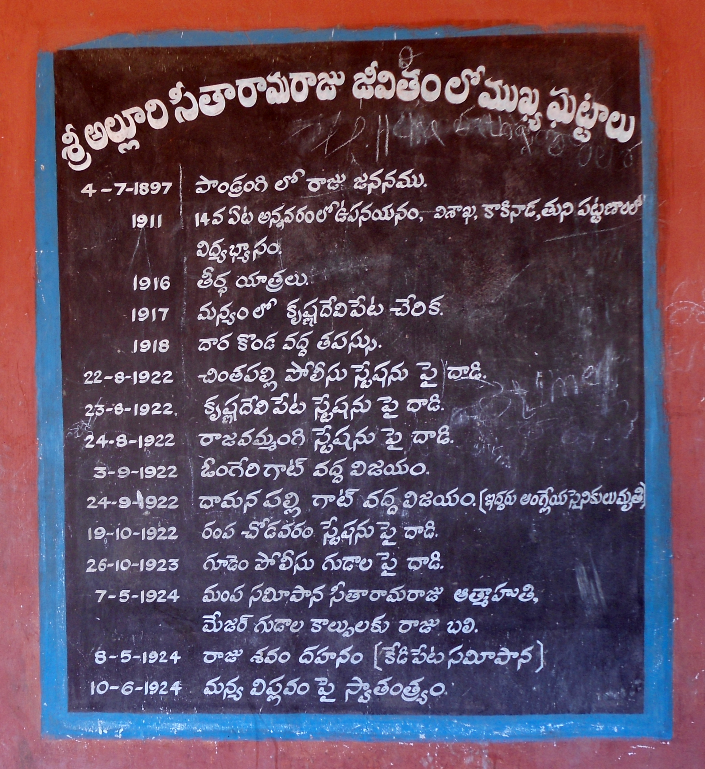 Details about Life of Alluri Sita Rama Raju at Pandrangi, Visakhapatnam district